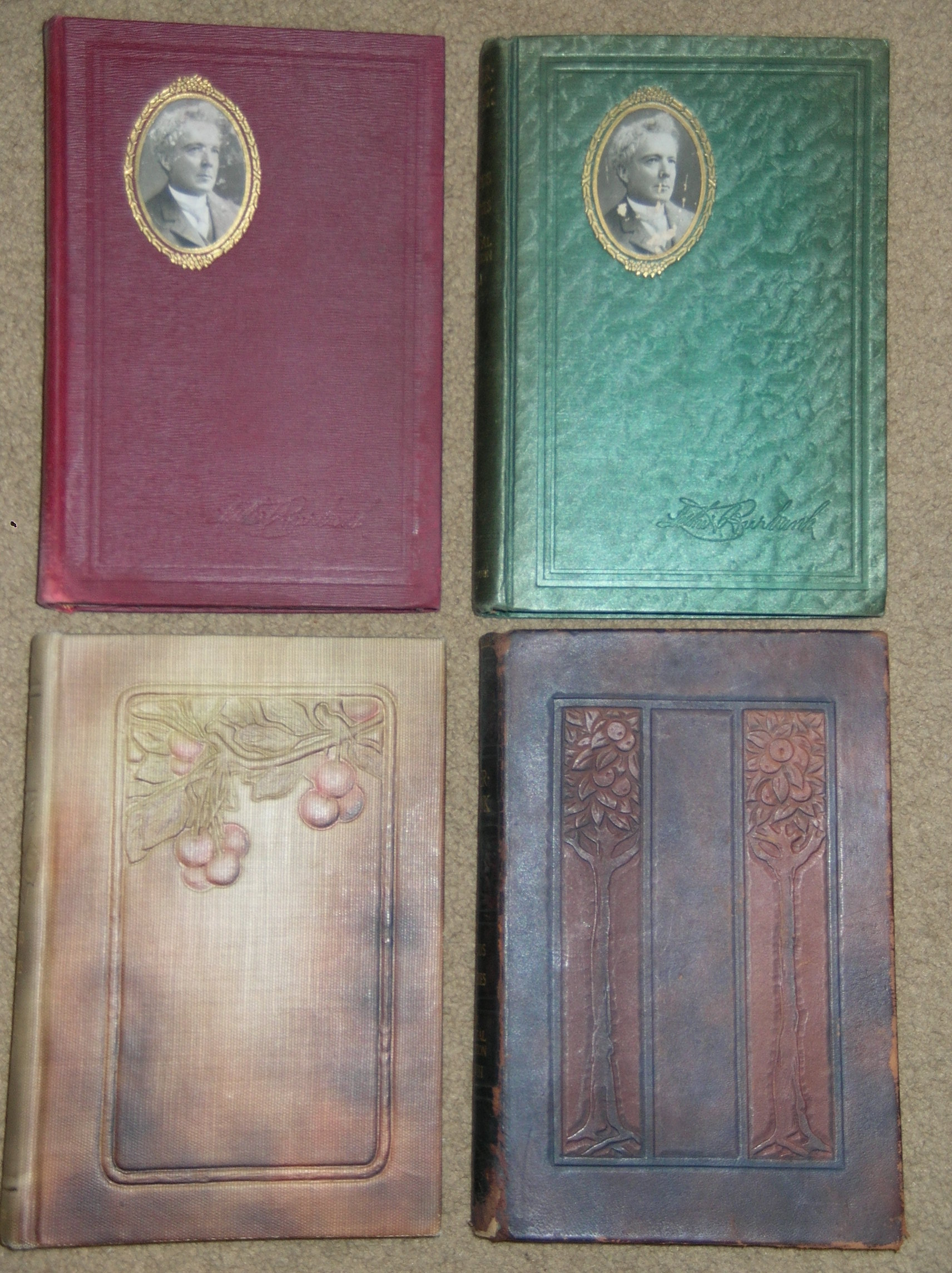 Luther Burbank - His Methods and Discoveries, published 1914-1915. One of the first books published using color photographs. 12-volume set with 105 photos in each volume. Published in simple cloth, embossed cloth and leather bindings. The upper two photos show the red and green simple cloth bindings. Other colors included gold and blue. The lower left photo shows the embossed cloth with a cherries design. The lower right photo shows the leather binding.